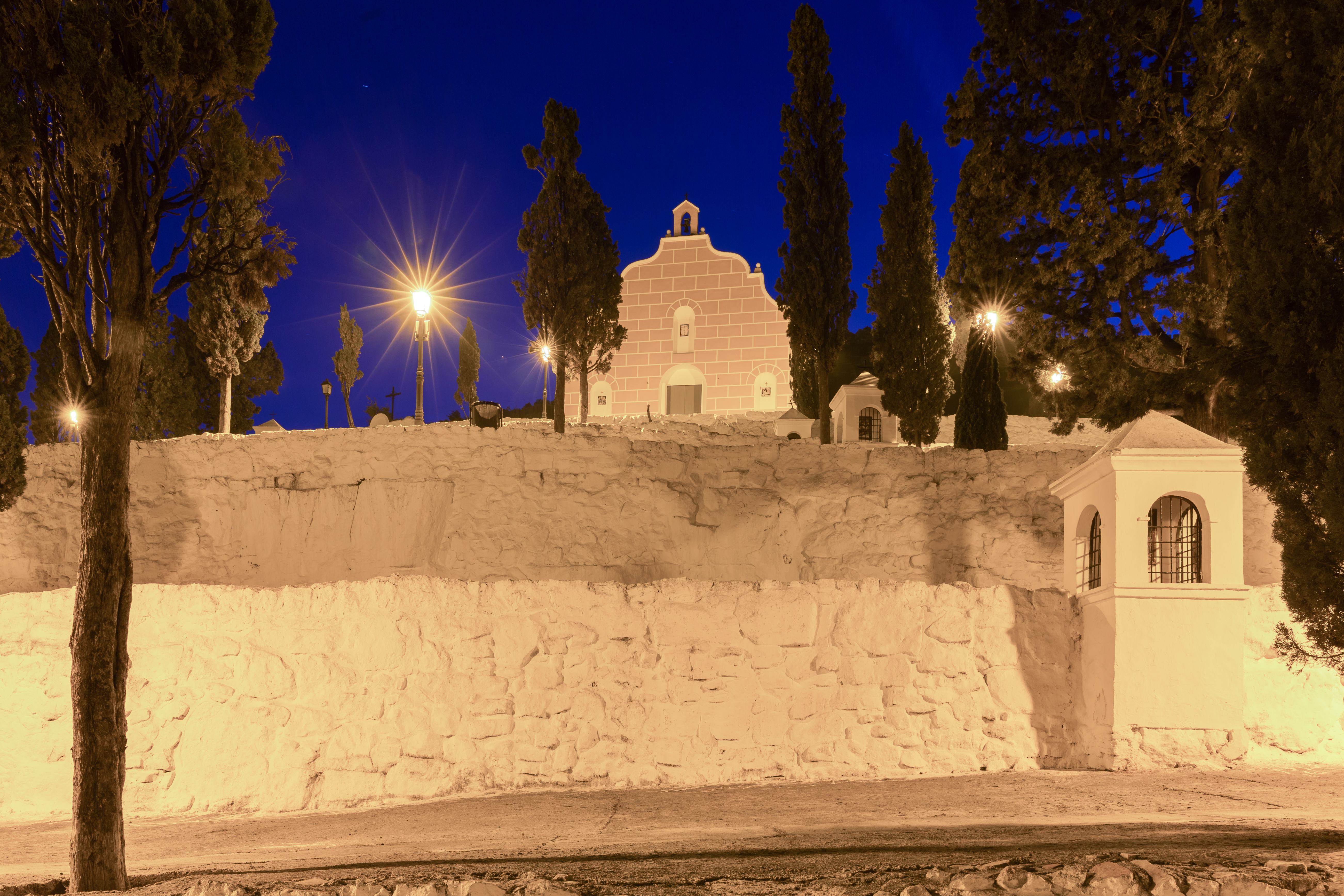 Loneliness hermitage ('Ermita de la Soledad'), Sagunto, Spain